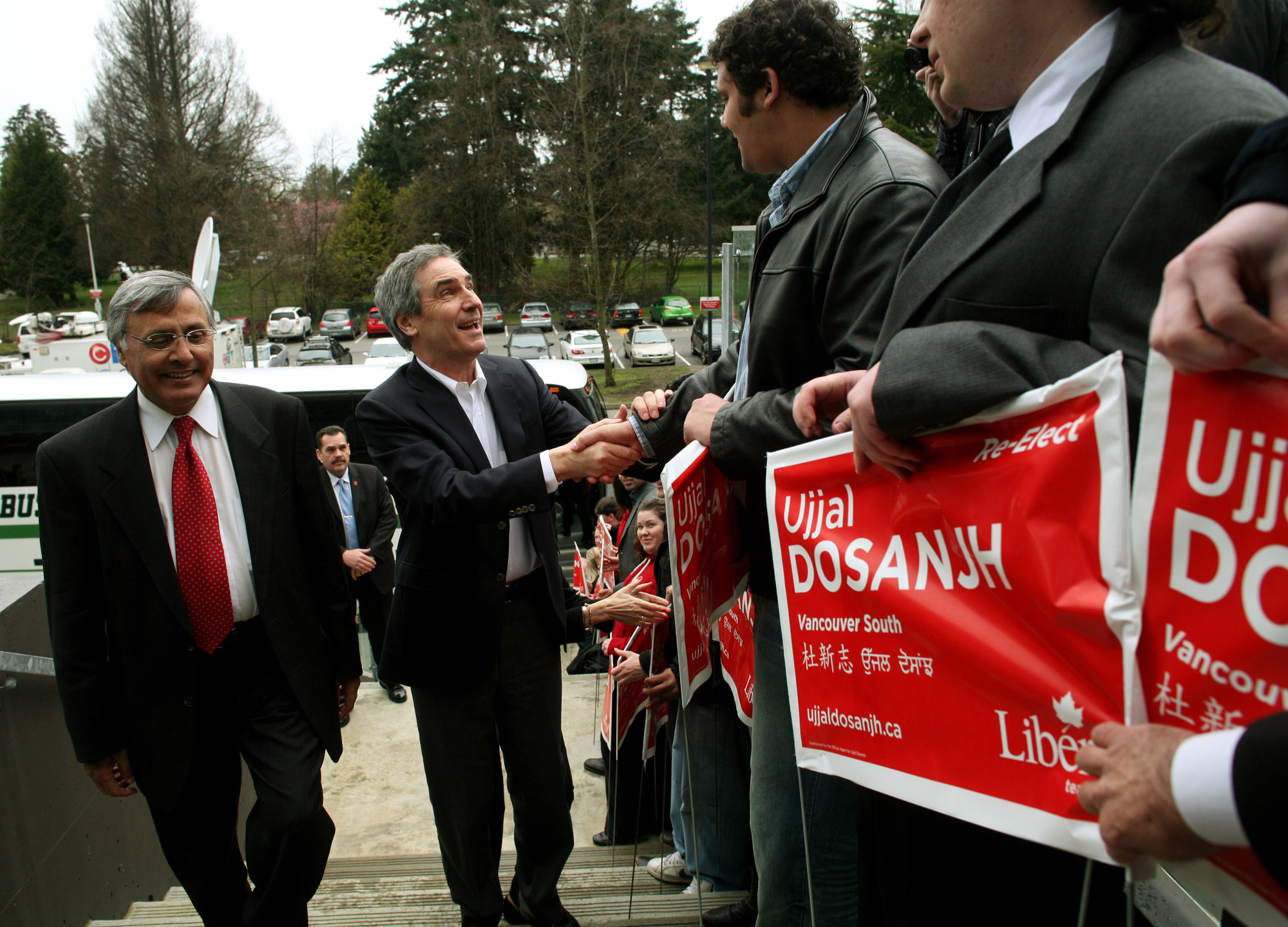 March 29, 2011: Liberal leader Michael Ignatieff attends a Roundtable on Equal Opportunities for New Canadians at Langara College in Vancouver, BC. Photos: Dave Chan